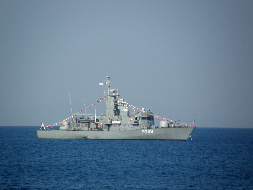 Hellenic Navy Gunboat HS Aittitos (Κ/Φ Αήττητος), P-268 at Phaleron Bay. This is a HSY-56A class patrol boat.